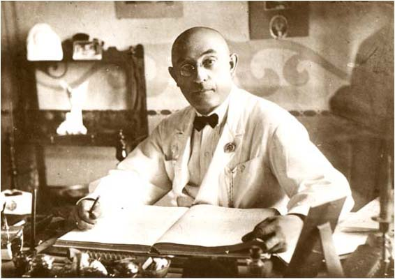 Zakaria Paliashvili, 1911 Georgia Pre-1921 image, unknown author, very old image taken in 1911 in Tiflis, Georgia, Russian Empire